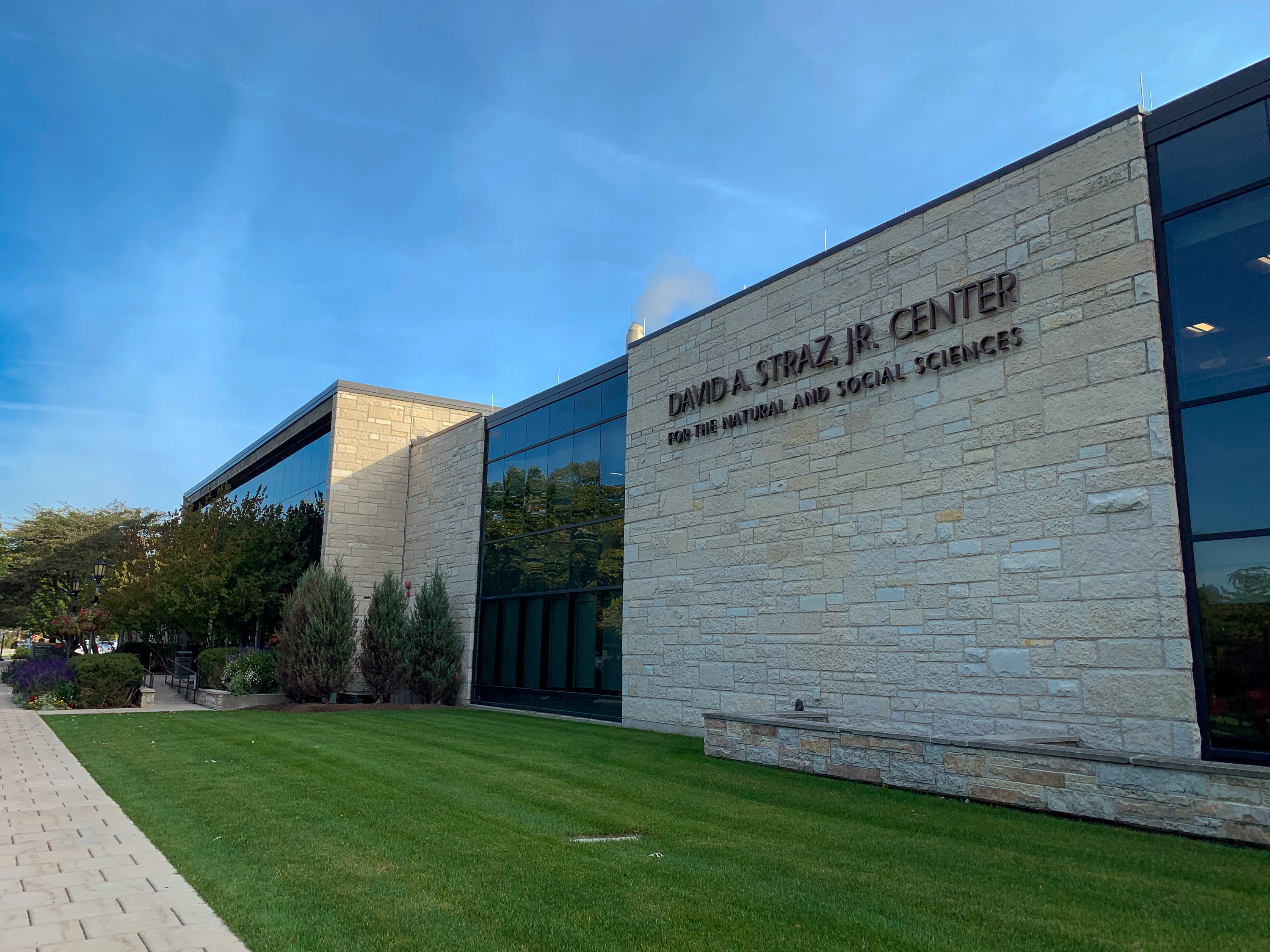 David R. Straz Jr. Center, Carthage College, Kenosha, WI